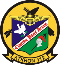 Insignia of the U.S. Navy Attack Squadron 112 (VA-112) "Broncos".